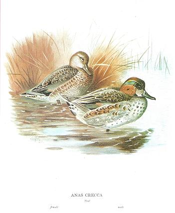 Illustration of Common Teal from Surface Feeding Ducks